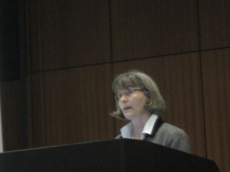 Portrait of Annette Scheunpflug, education researcher and professor at Universität Erlangen-Nürnberg